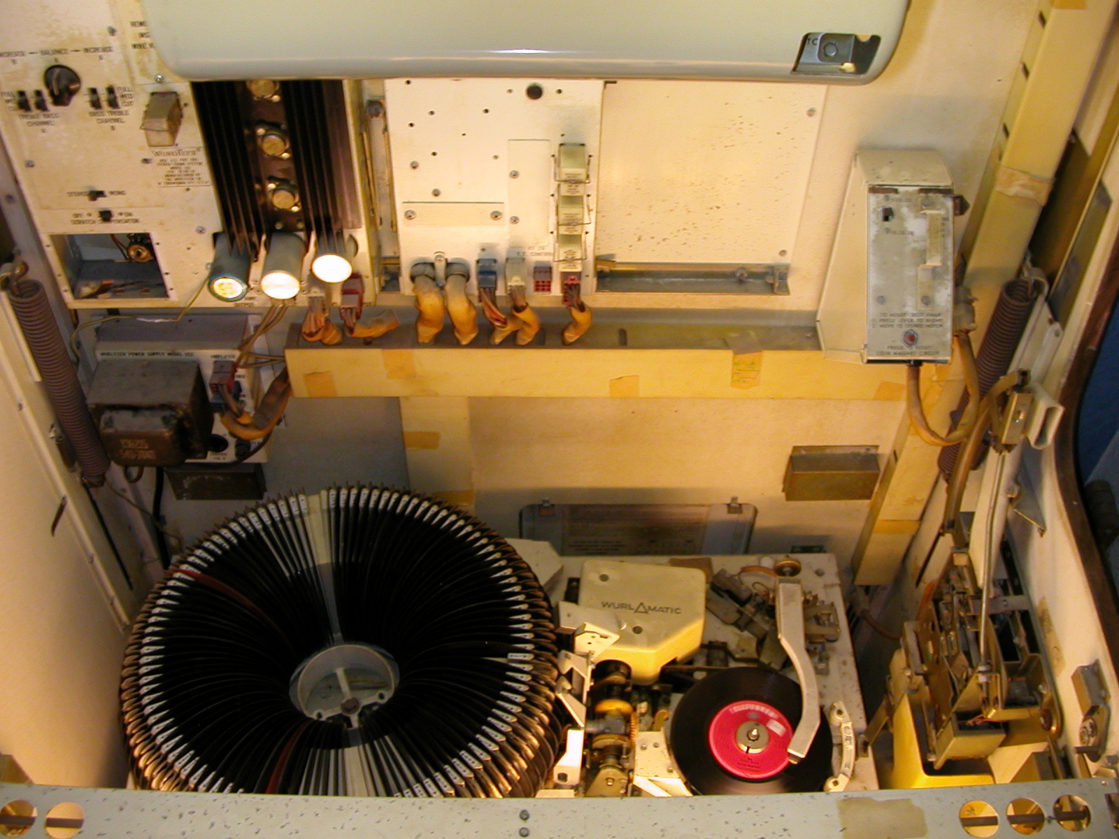 Wurlitzer 3500 "Zodiac" Juke-box from 1971. Close-up of the carousel and turntable mechanisms. The disc carousel is on the left, holding 100x 45 RPM discs and the turntable is on the right. The mechanical arm picks up a record, removes it from the carousel, rotates it to the chosen side and gently places it on the turntable. The play arm then moves to the edge of the turntable to start playback. Once the playback is over, the play arm moves out of the way, the mechanical arm grips the disc and places it back into the slot from which it was originally retrieved. A small brush cleans the stylus before and after playback. Each disc holder on the carousel has a small mechanical counter, this allows the technician to see which disc is popular.